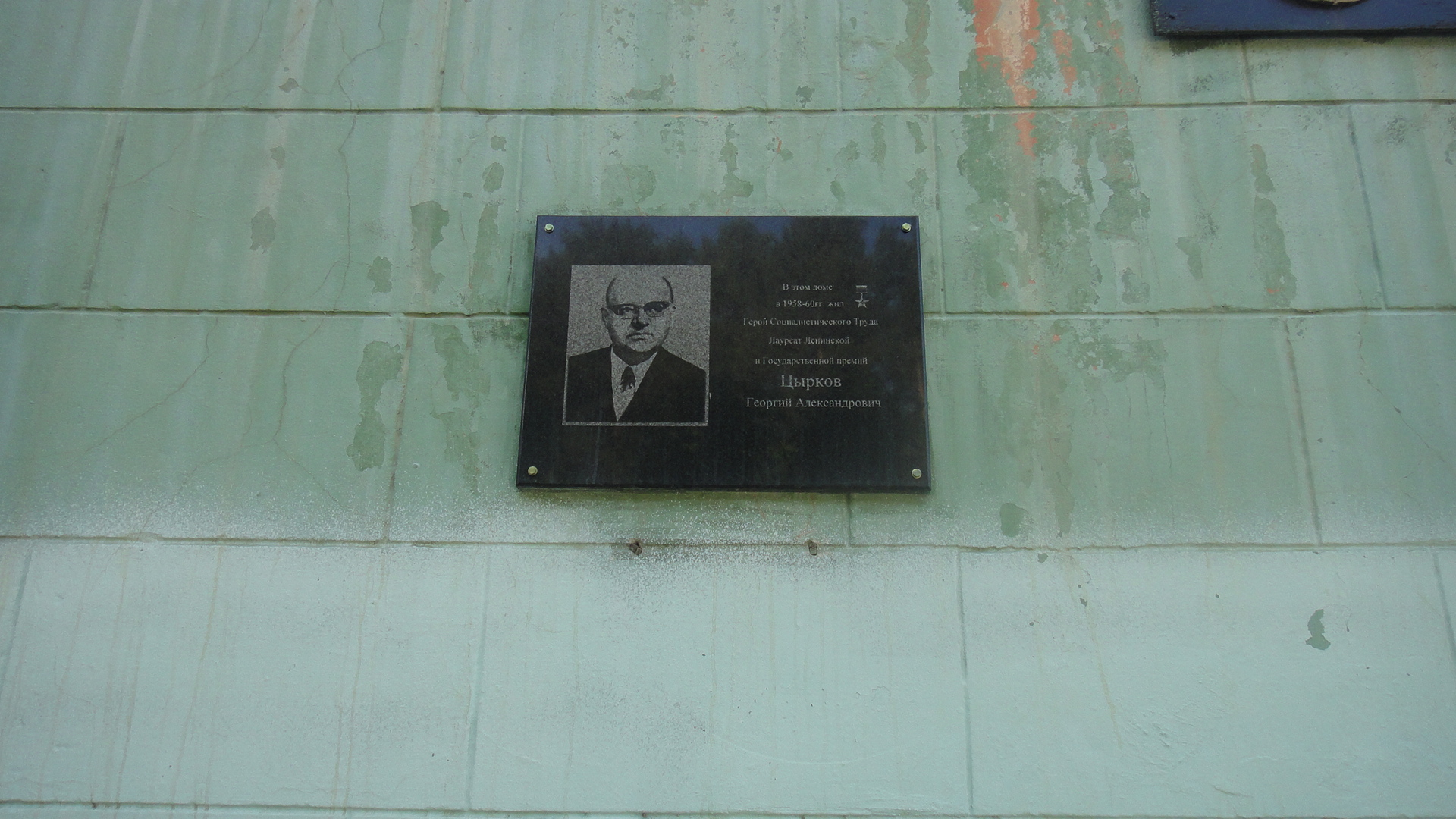 Мемориальная доска Цыркову